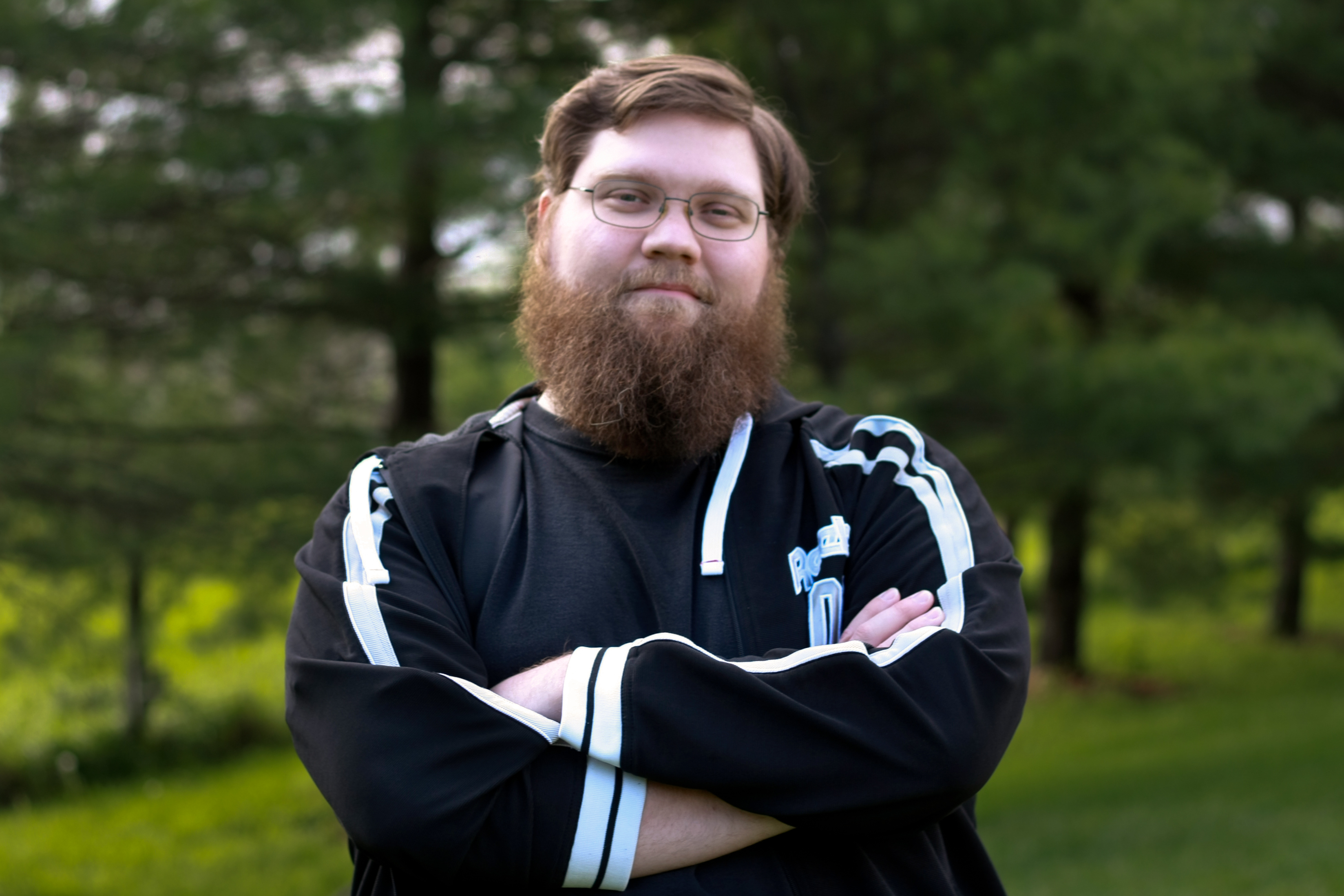 Justin Anthony Knapp